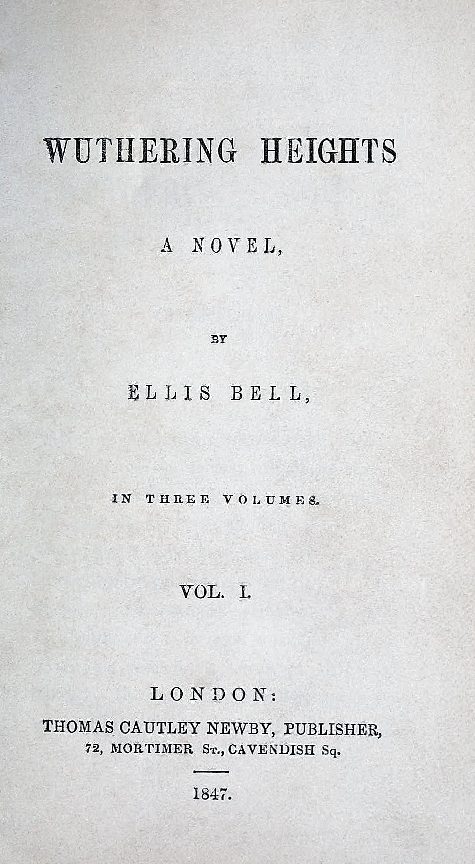 Title page of original edition of Wuthering Heights (1847)